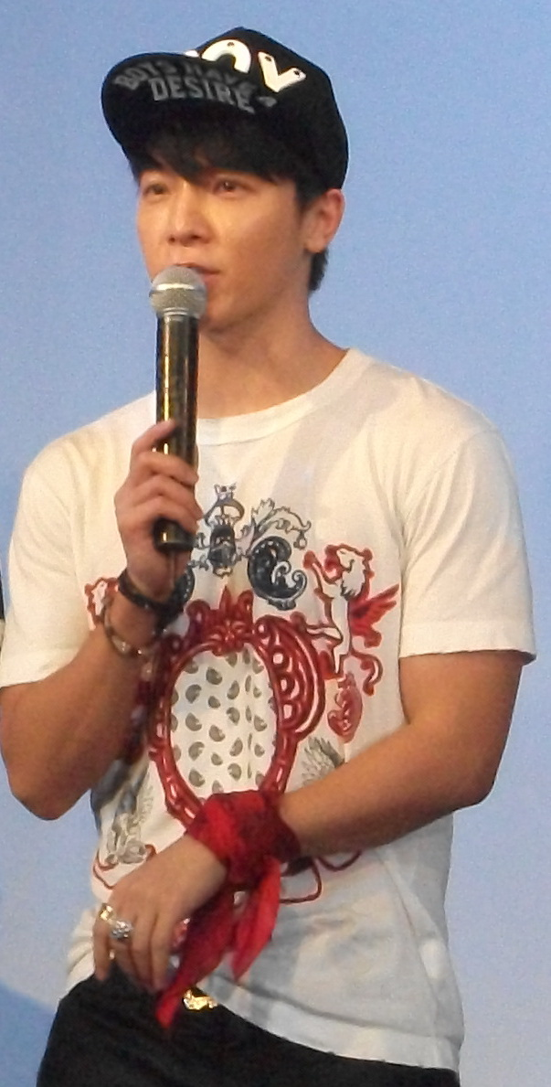 Lee Donghae at press conference of Super Junior M Breakdown in Bangkok.